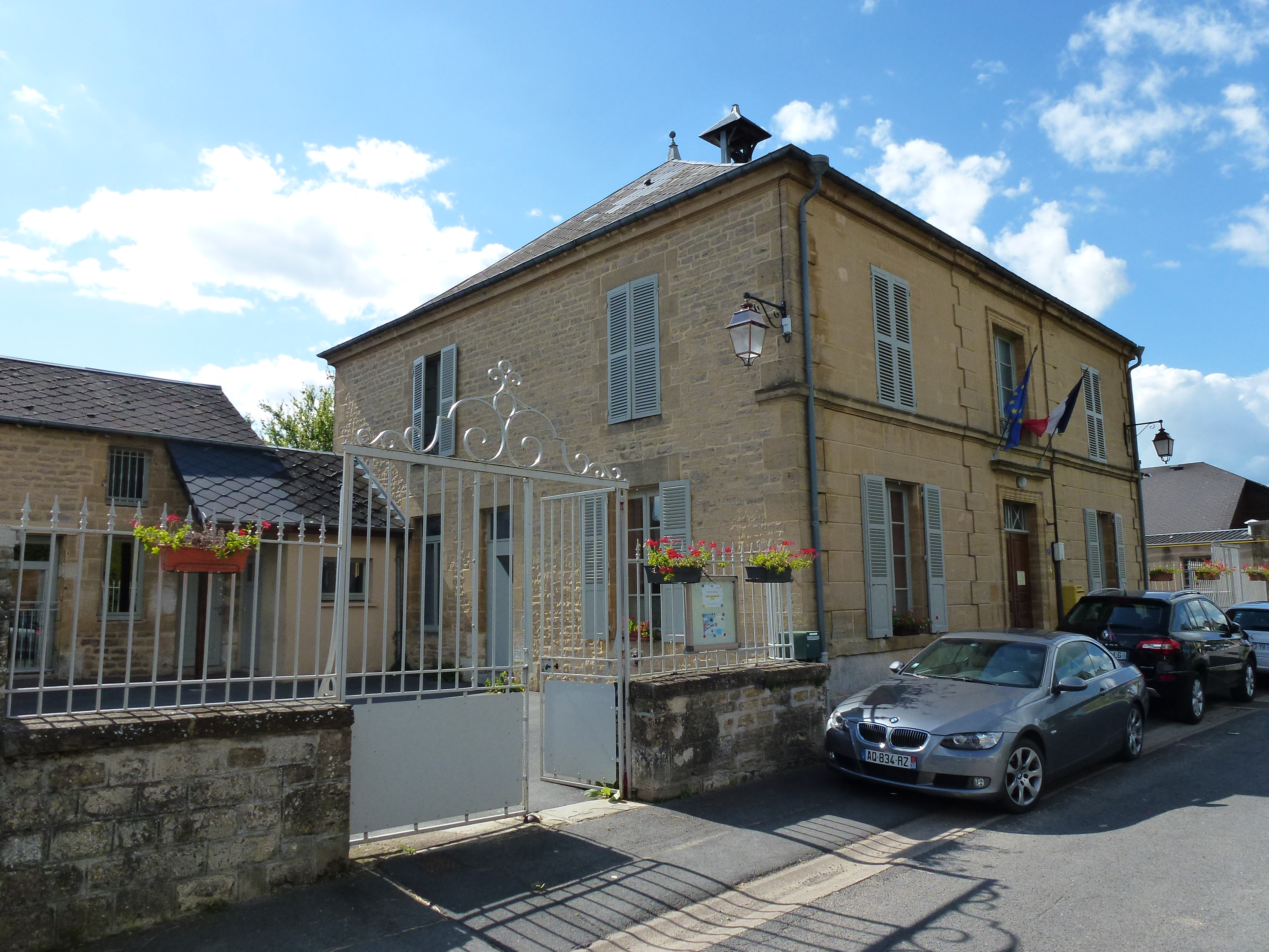 Jandun (Ardennes) mairie